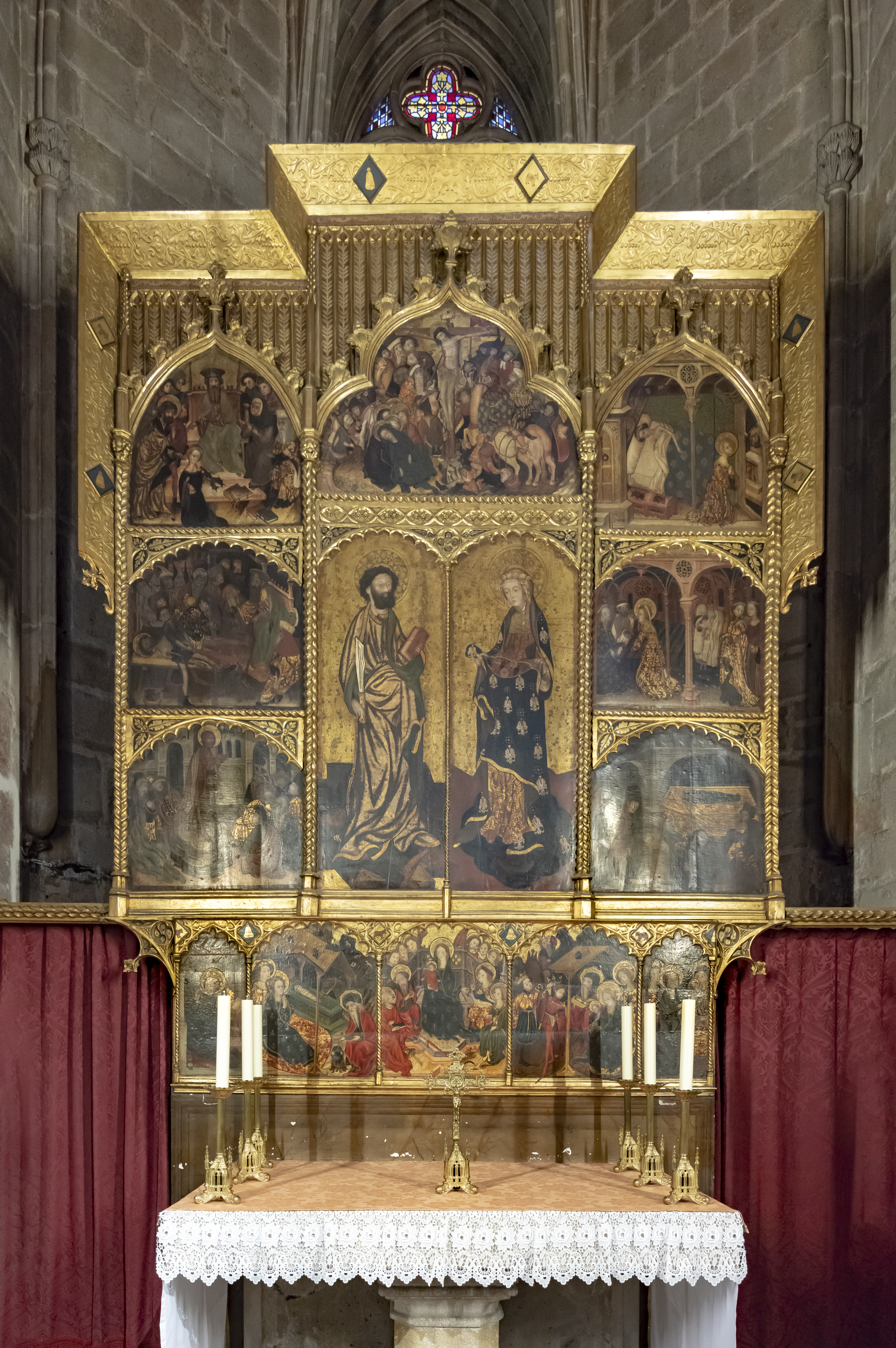 The Cathedral of the Holy Cross and Saint Eulalia in Barcelona. Chapel of St. Mary Magdalene, St. Bartholomew and St. Isabella. Of the painter Guerau Gener, who was learning in the workshop of Lluís Borrassà, it is the altarpiece of this chapel of the year 1401. It is structured in three streets, predella and guardapols. In the central street, above is a Calvary and a bass, holy head St. Bartholomew and Holy Elisabet of Hungary. In the left street, from above, exorcism of the daughter of King Polem, martyrdom of St. Bartholomew and preaching of slaughtered St. Bartholomew. On the right street, miraculous intercession of Santa Isabel, Santa Isabel curing the sick and holy miracles of Santa Isabel. To the predella, from the left, the Annunciation, the Nativity of Jesus, the Mother of God and the Child surrounded by saints and angels, Epiphany, the presentation of Jesus in the temple. On the ground there is the tombstone of auxiliary bishop Ricard Cortés i Culell, who died in 1910.